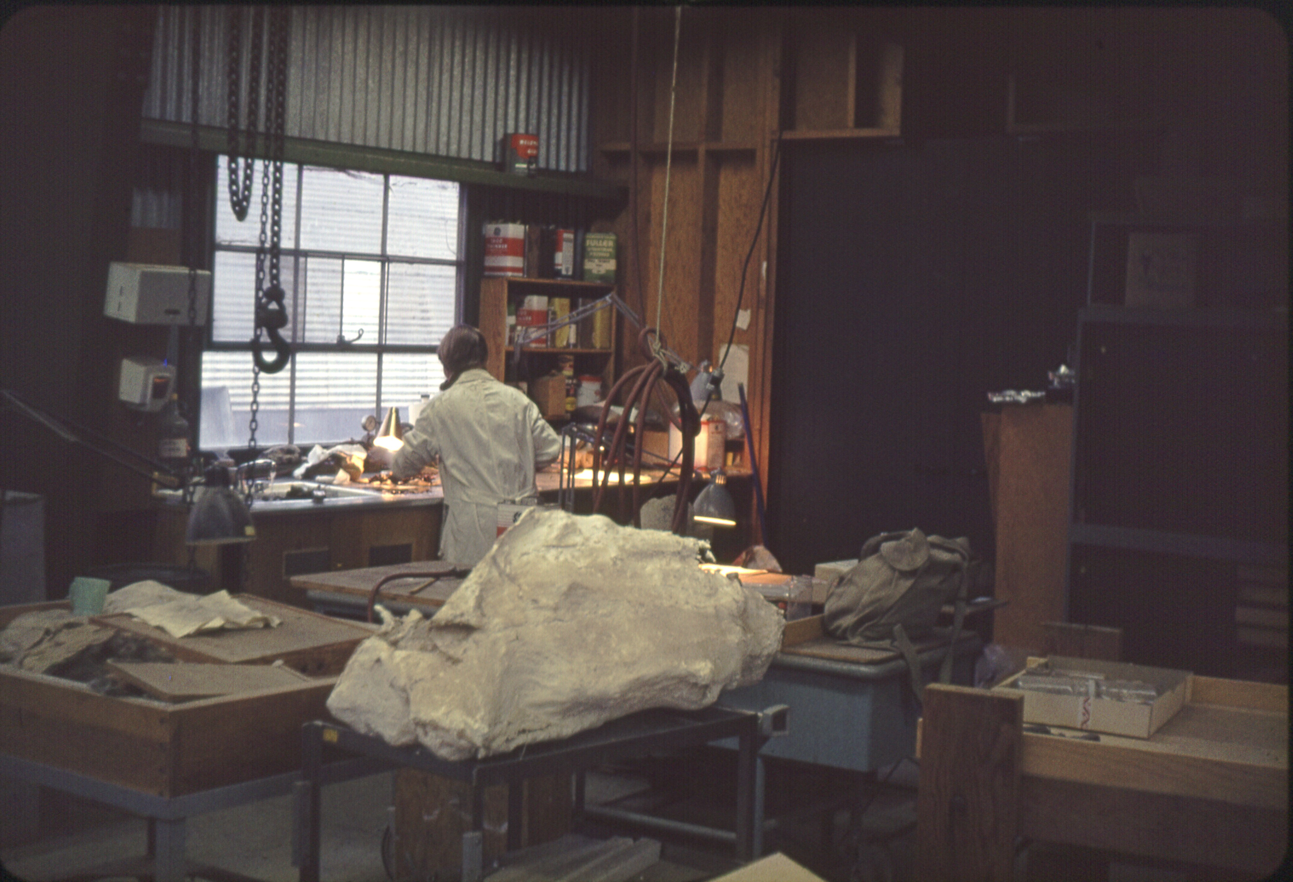 A laboratory in the University of Oregon Museum of Natural and Cultural History sometime in the spring of 1966.